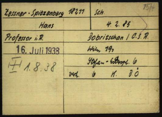 Registration card of Hans Karl Zeßner-Spitzenberg as a prisoner at Dachau Nazi Concentration Camp. The penciled cross signals the day of his death.